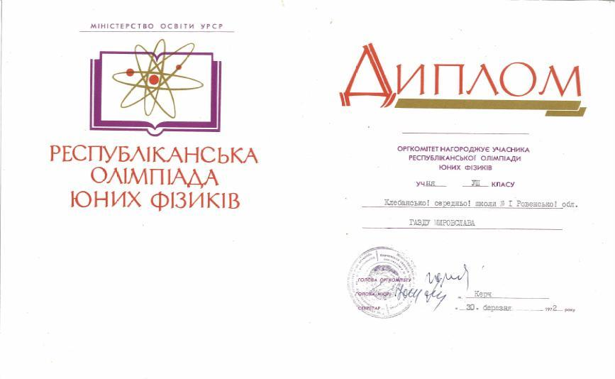 Diploma of the Republican competition of young physicists in Kerch, 1972, Myroslav Gazda, Klevan SSH№1